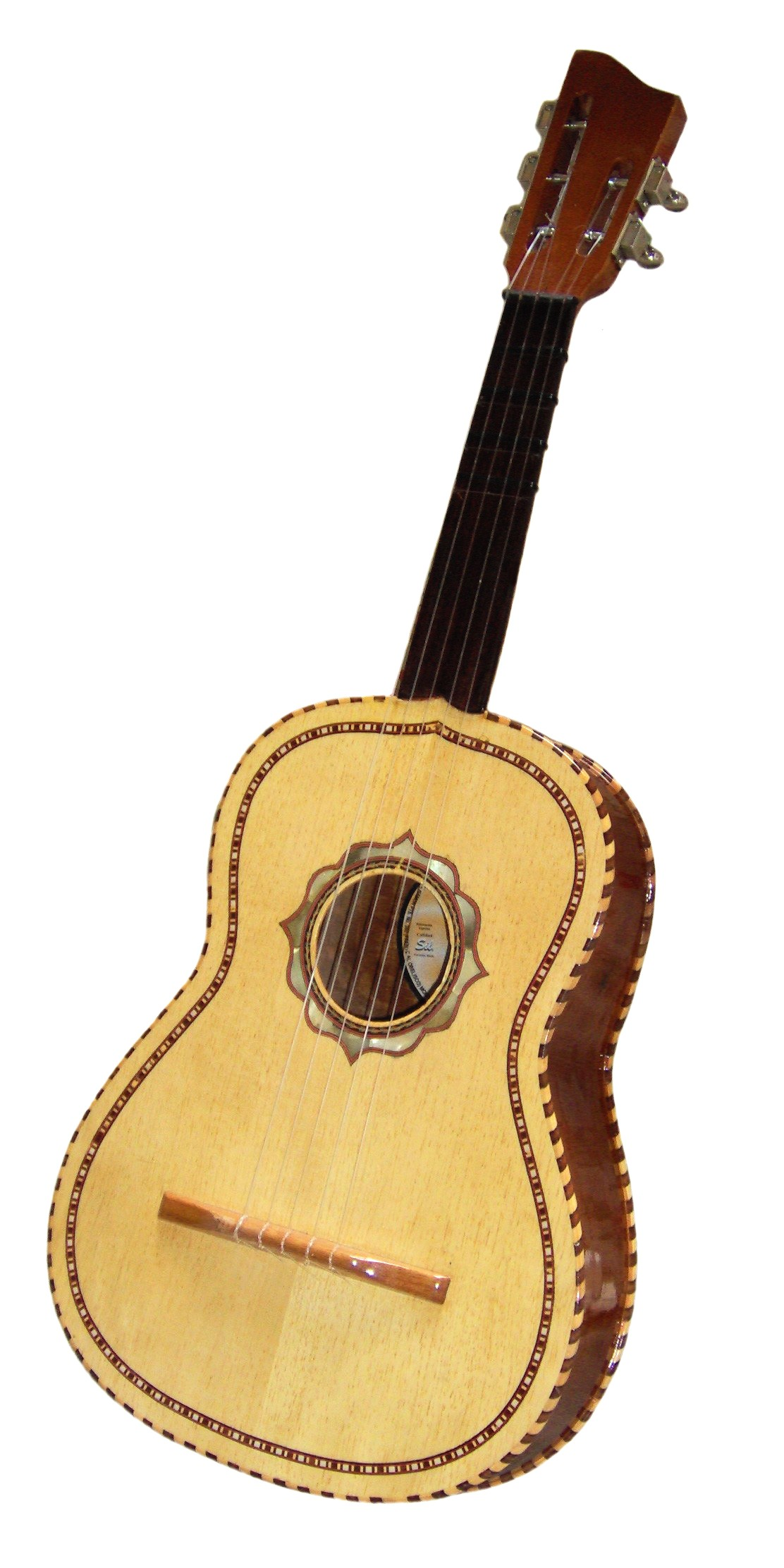 Vihuela, Mexican folk instrument